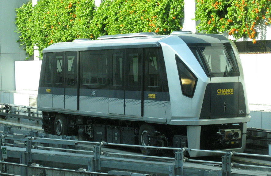 Single-car Skytrain approaches Singapore Changi Airport's new Terminal 3. The Skytrain links Terminals 1, 2 and the impressive new Terminal 3.